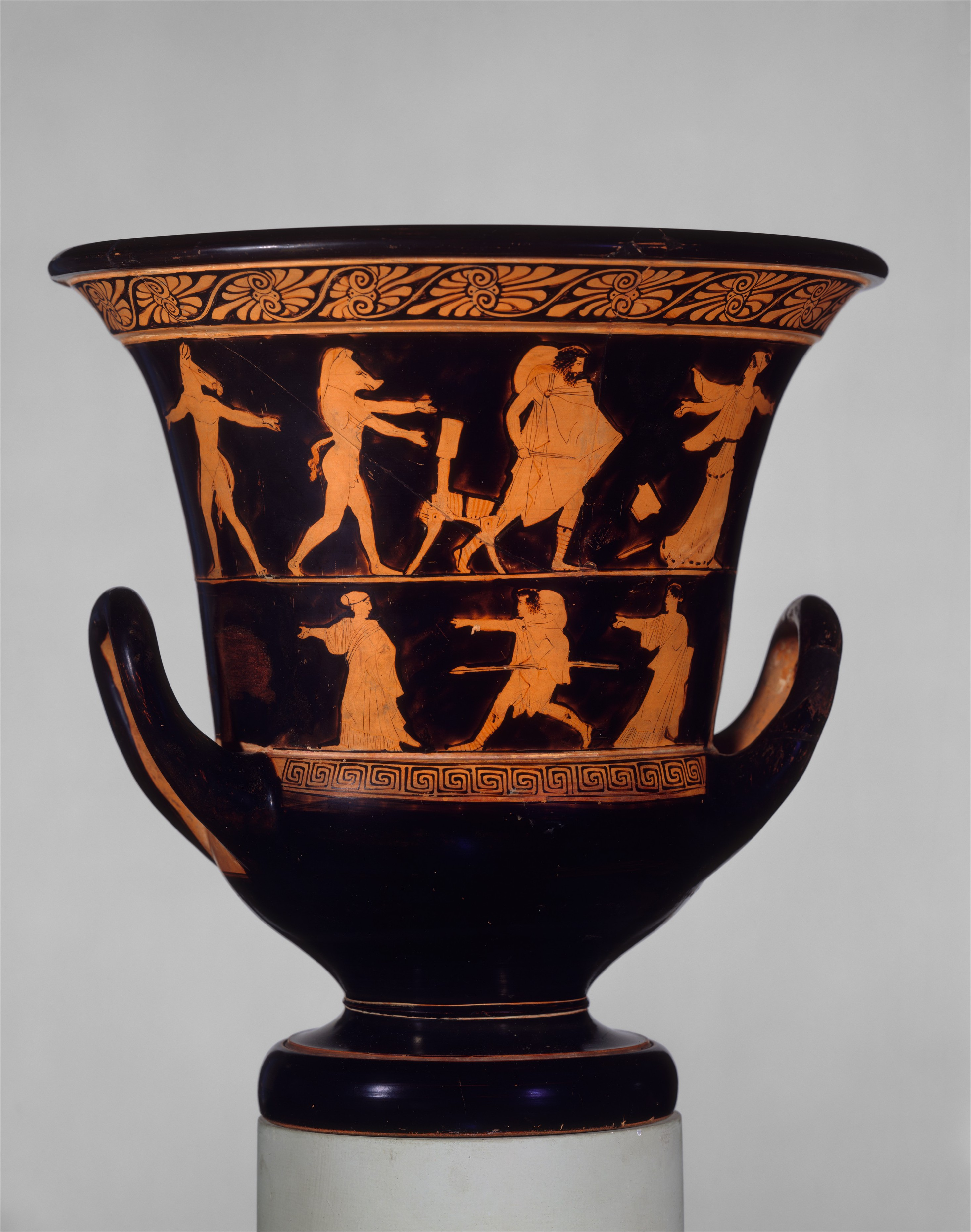 Greek, Attic; Calyx-krater; Vases; Above, obverse, Odysseus pursuing Circe; reverse, women and king Below, obverse, man between women; reverse, youth and women The primary and most interesting scene on this two-row krater shows Odysseus pursuing the enchantress Circe. In the air between them are Circe's magic wand and the skyphos (deep drinking cup) that contains the potion with which she transforms men into animals. Behind Odysseus, two of his men with features of a boar and a horse or mule gesticulate toward him. The pursuit may also be mythological.